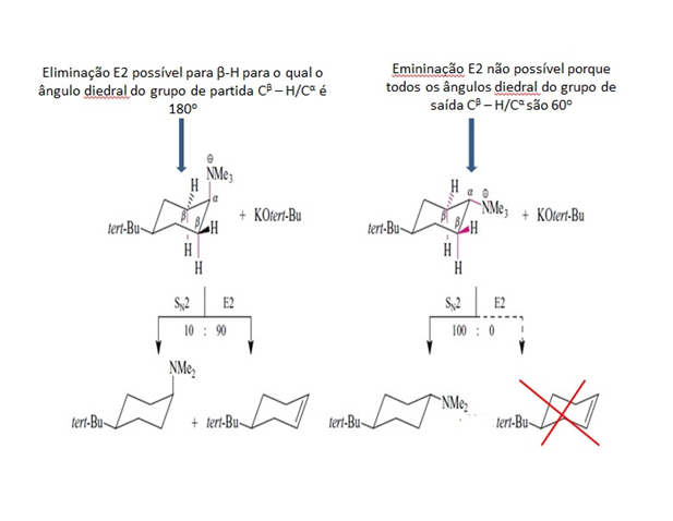 efeito eliminação